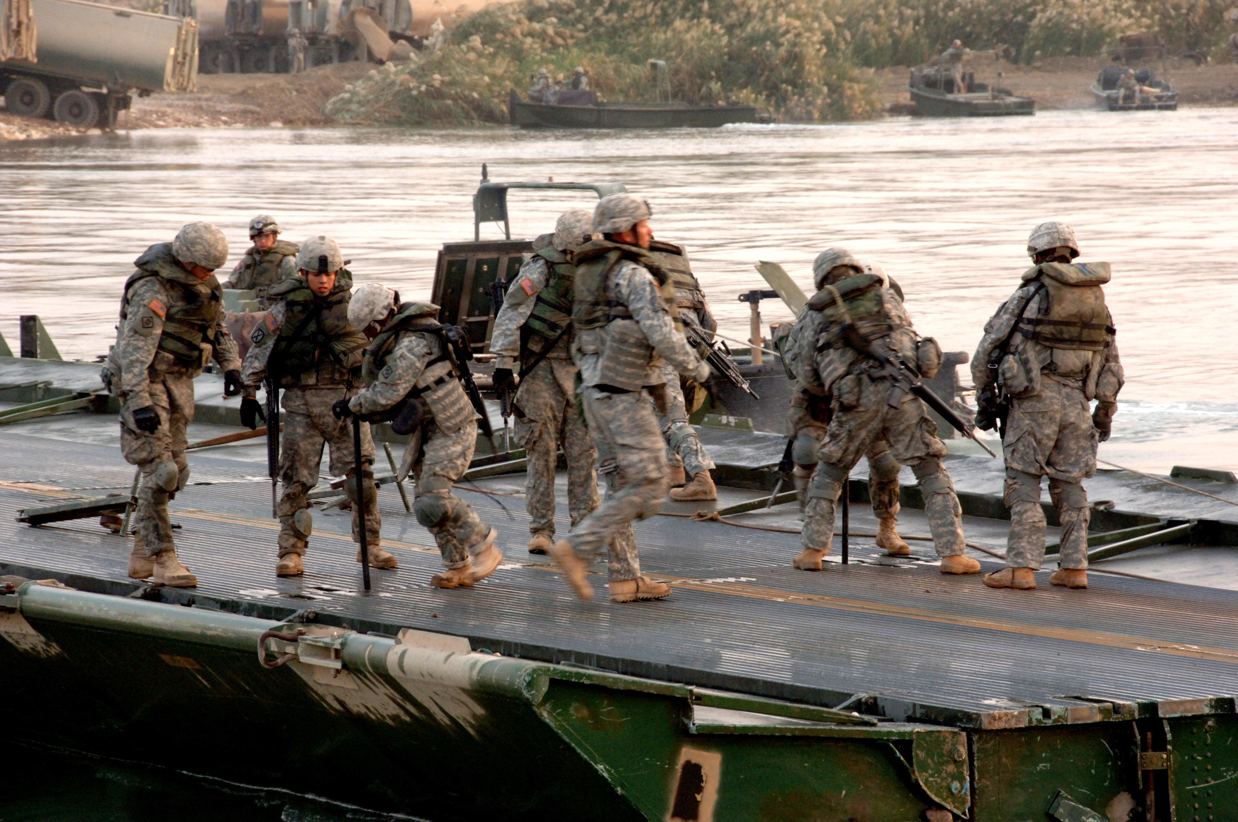 U.S. Army soldiers from the 20th Engineer Brigade build a bridge across the Euphrates River to establish a supply line Nov. 16, 2007, in support a combat operation near Baghdad. (U.S. Army photo by Spc. Luke Thornberry)